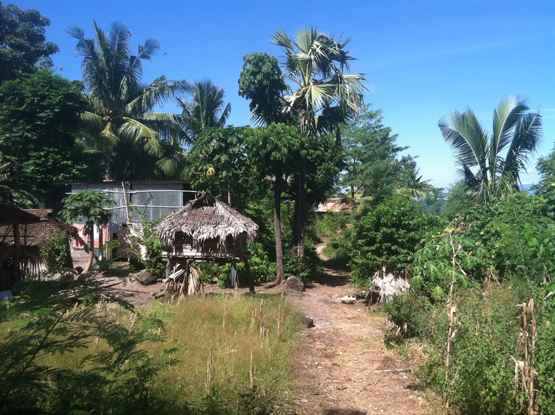 Village on Atauro